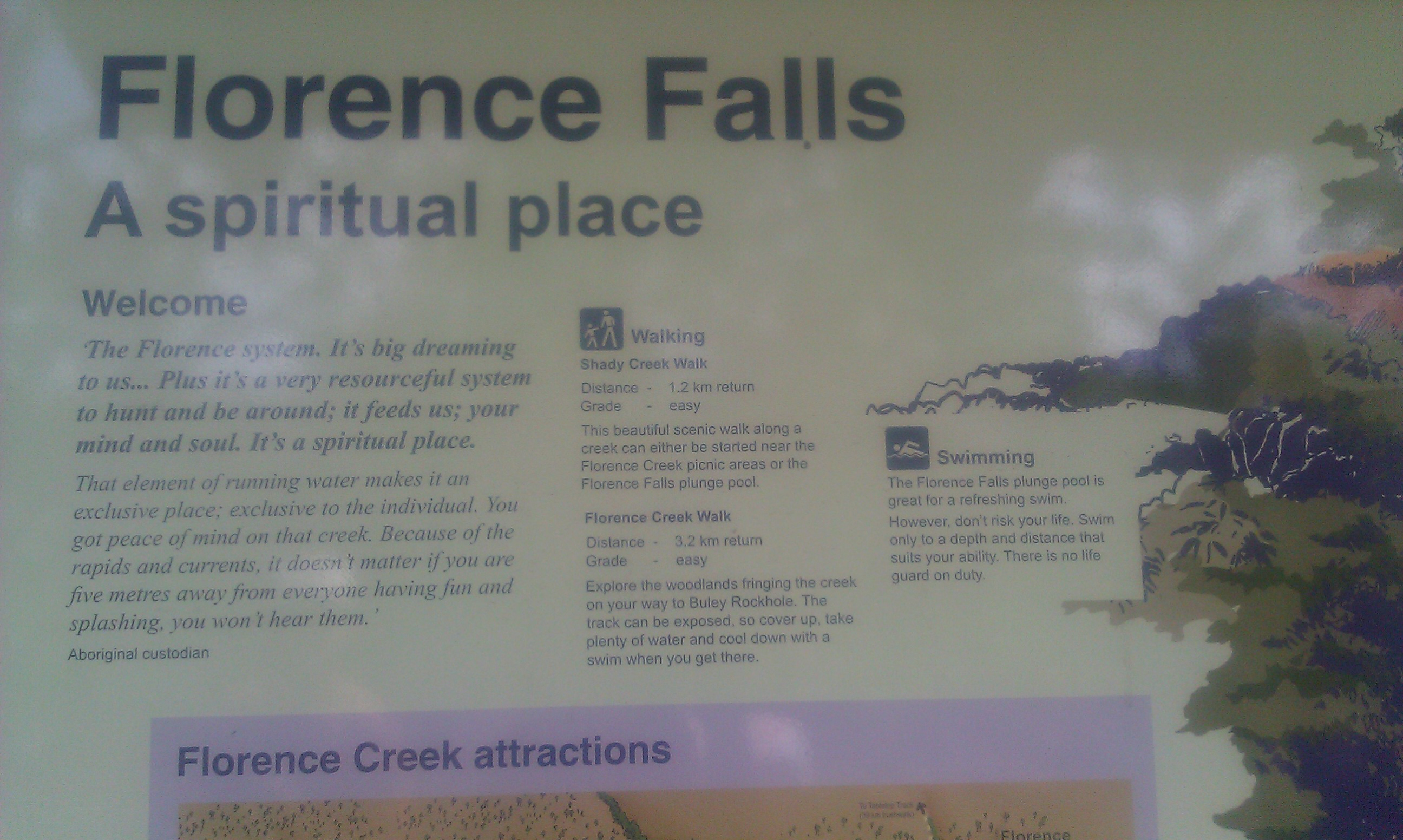 a sign post at Florence Falls, Litchfield National Park saying "Florence Falls - A spiritual place" and more informational text about walking and swimming in the area